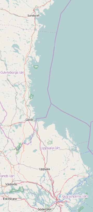 Map of the East Coast Line in Sweden. A rail line along the eastern coast of Sweden. Copied from the OSM (OpenStreetMap) tile in the Marble program.